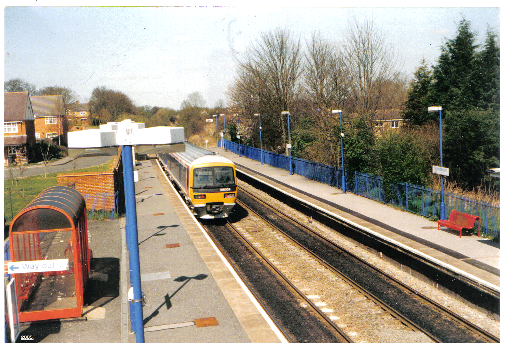 I took this picture of Saunderton station my self in the year 2005 and donate it to the public domain.